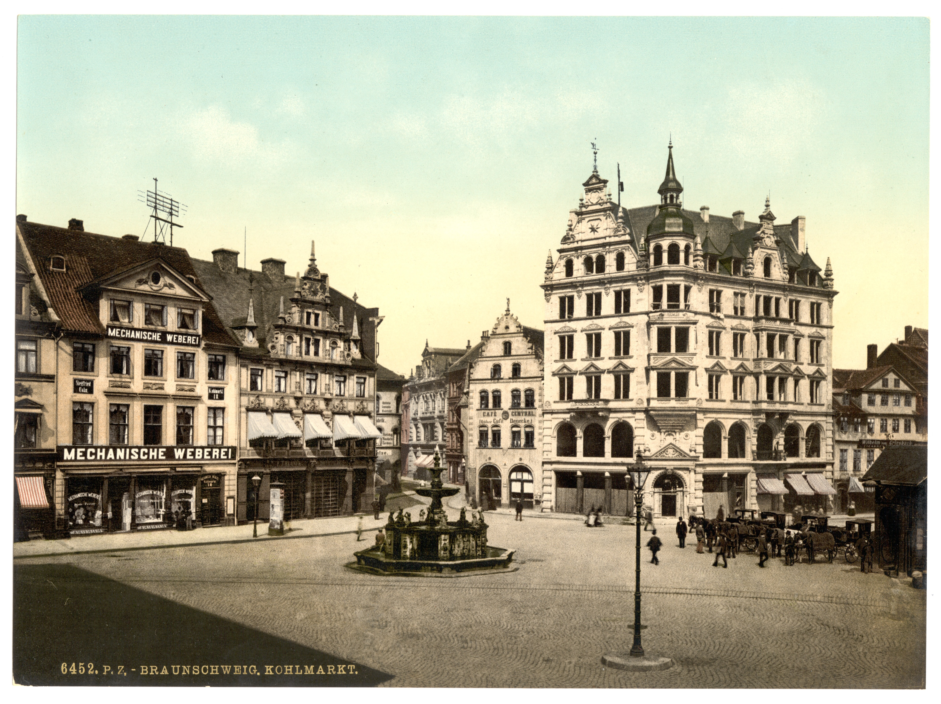 Print no. "6452".; Title from the Detroit Publishing Co., catalogue J-foreign section. Detroit, Mich. : Detroit Photographic Company, 1905.; Forms part of: Views of Germany in the Photochrom print collection.